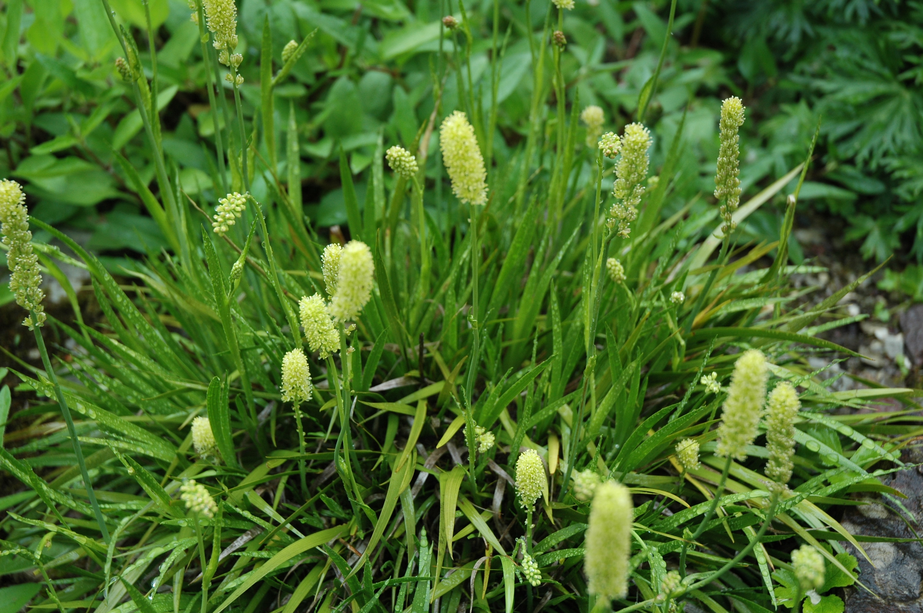 Tofieldia calyculata, Habit at Rennsteiggarten near Oberhof/Thuringia (Germany)